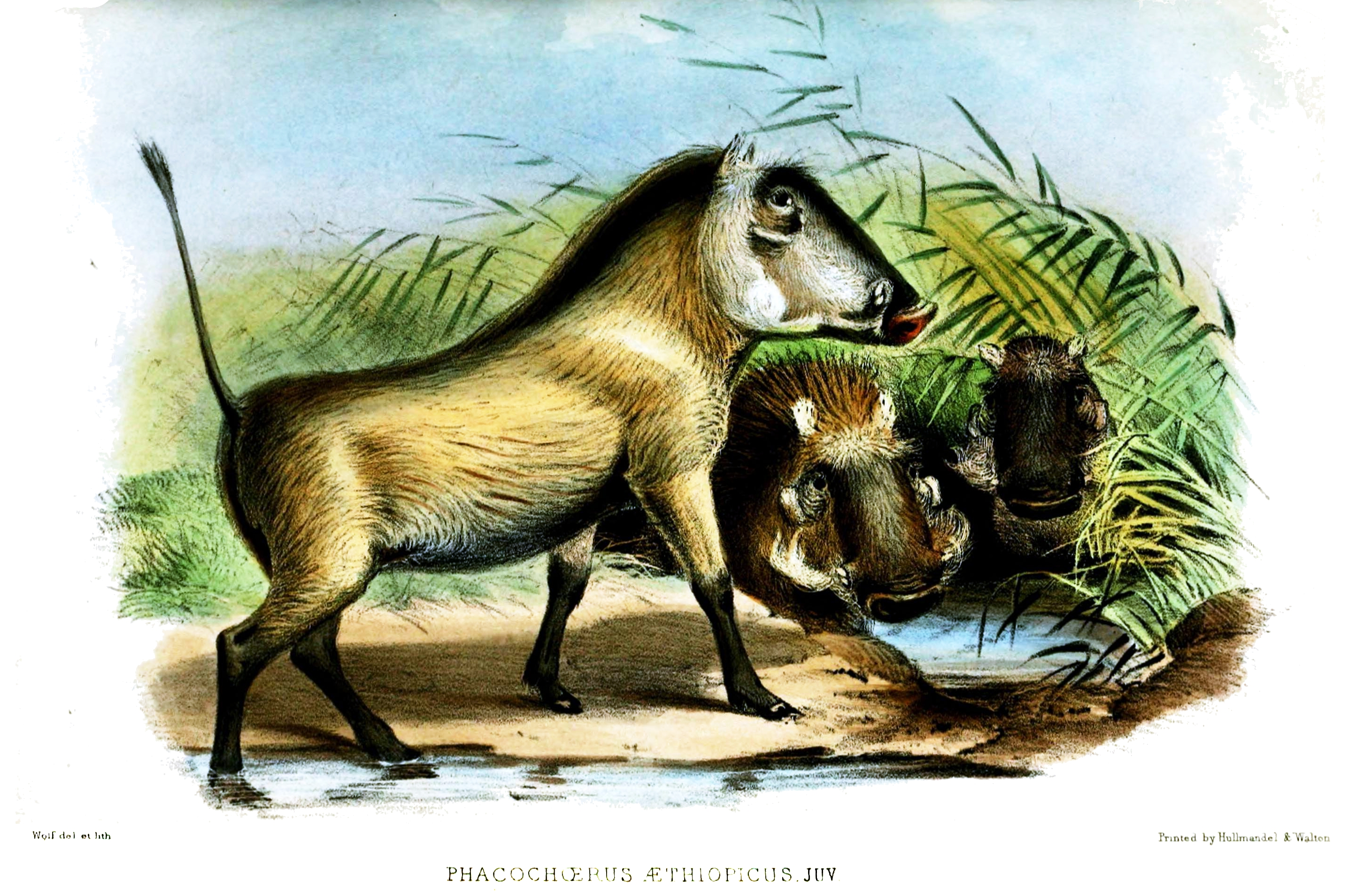 Southern Warthog(?), juveniles